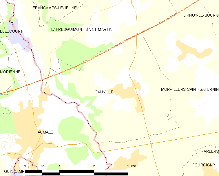 Map of French municipality Gauville